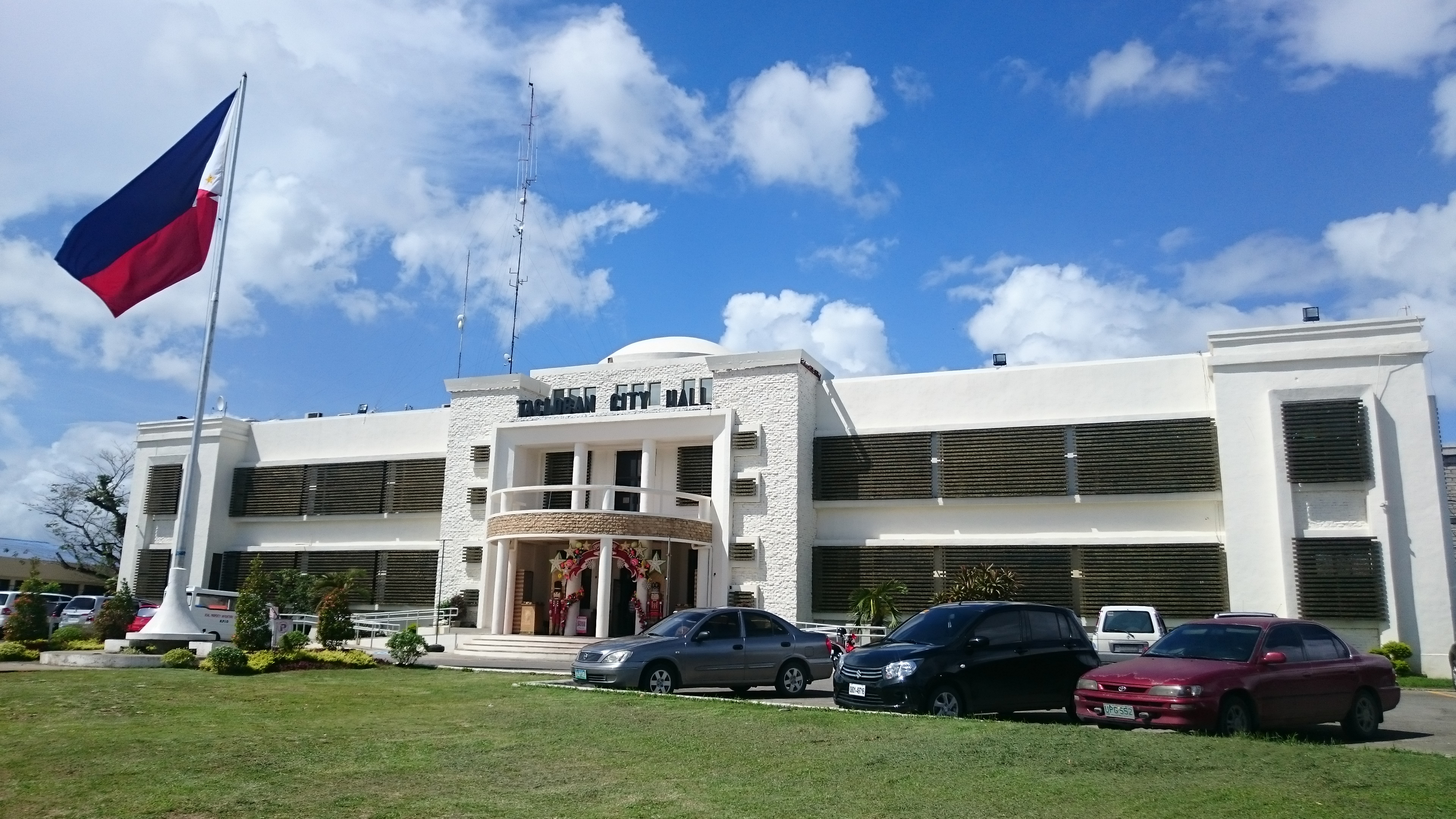 City Hall of Tacloban, Philippines. 2016